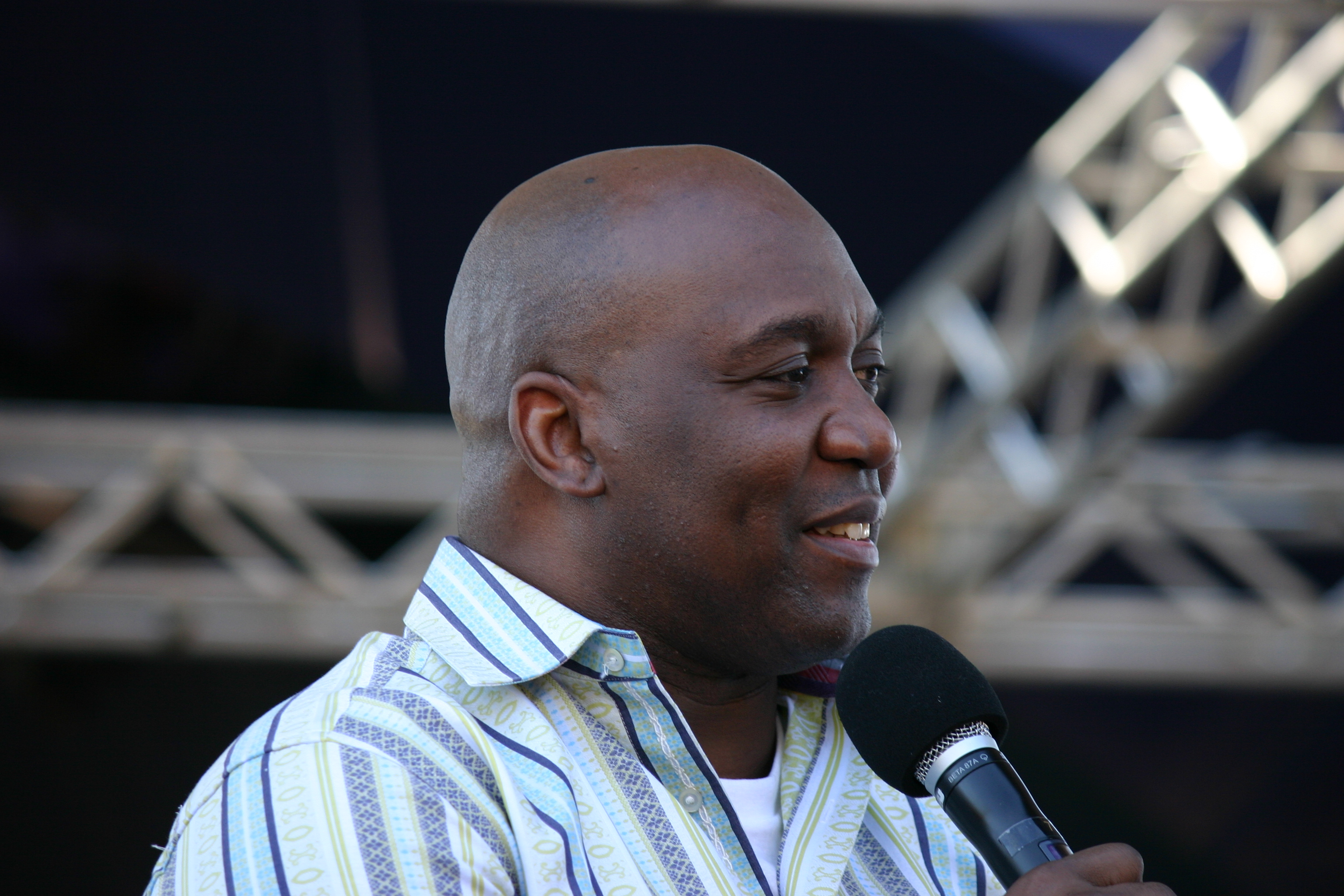 Thurman Thomas answering guest questions at ESPN The Weekend on February 26, 2010